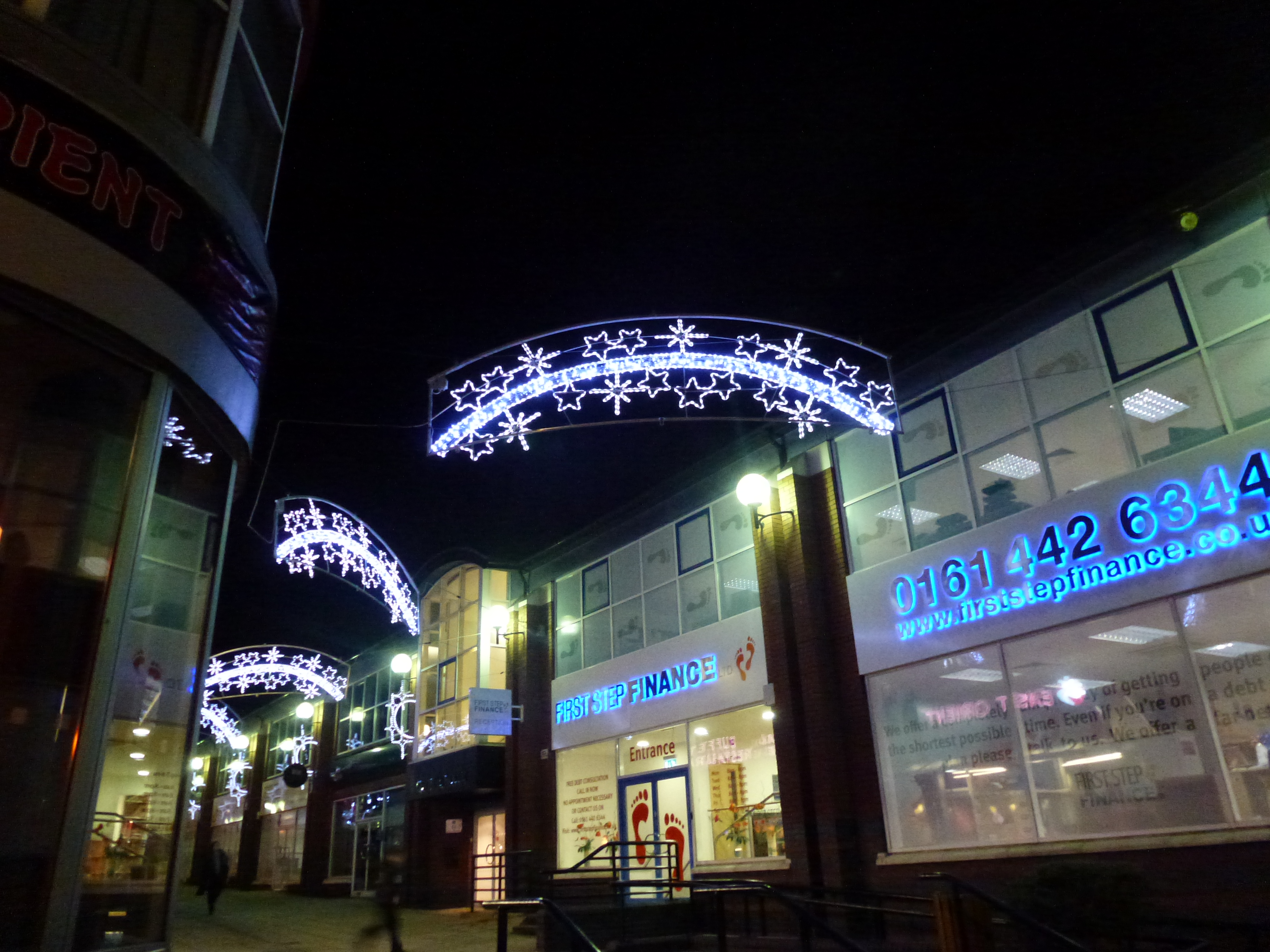 entrance to Grand Central in Stockport from Wellington Road South on Wednesday 21st November 2012.